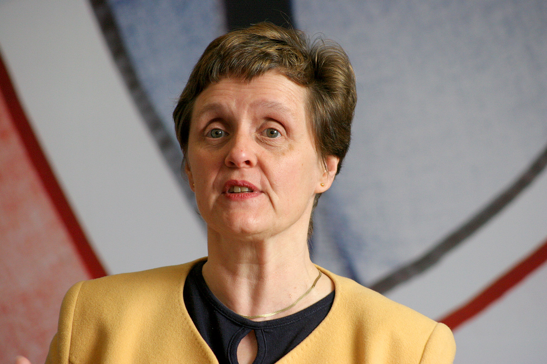 Anthea McIntyre, Conservative MEP for the West Midlands